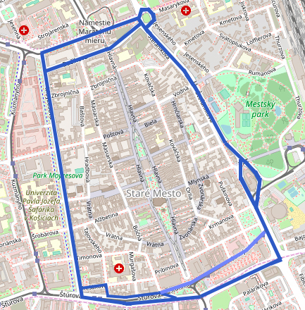 Map of City ring 1 in Košice, Slovakia